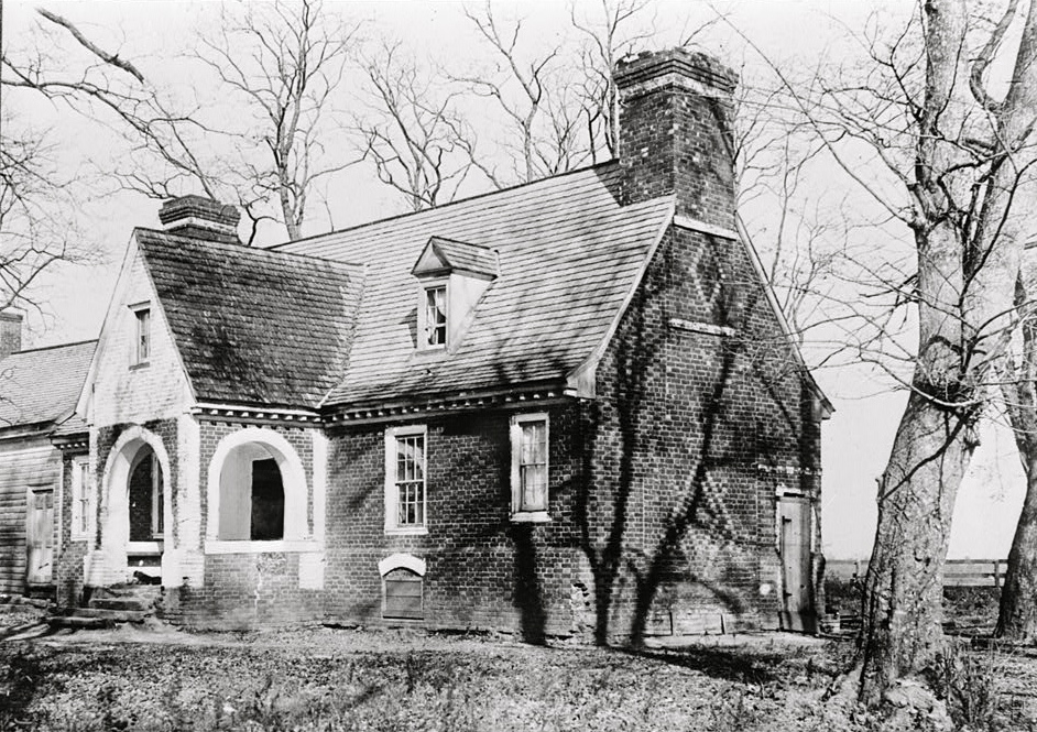 Image taken from - as HABS photograph it is in the public domain